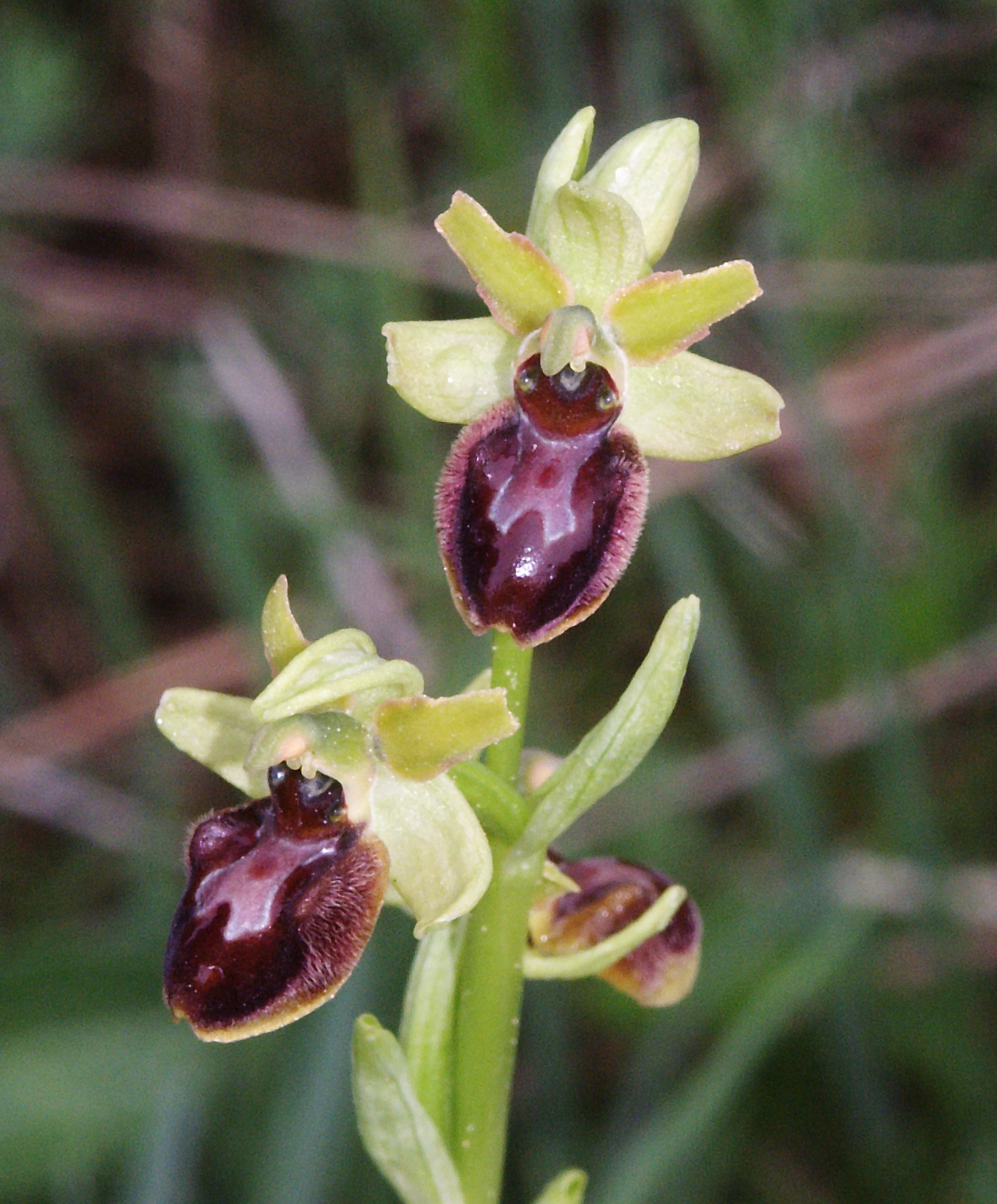 Ophrys sphegodes, Tauberland, Germany